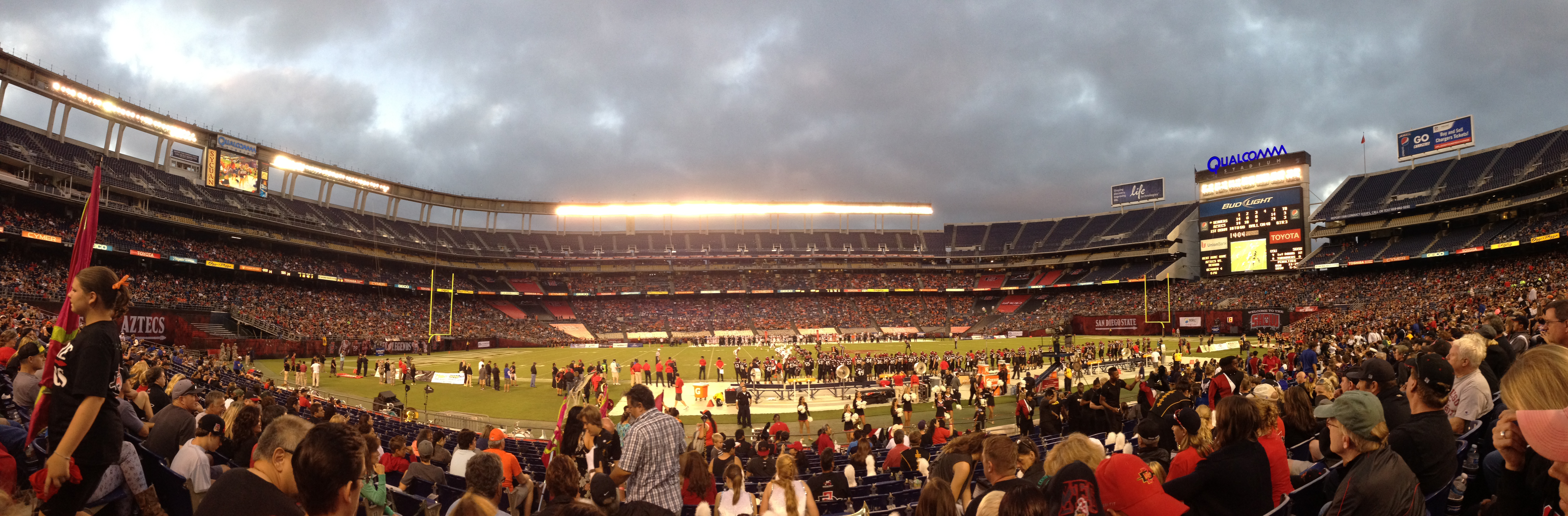 Inside Qualcomm Stadium while SDSU Aztecs match against Oregon State.